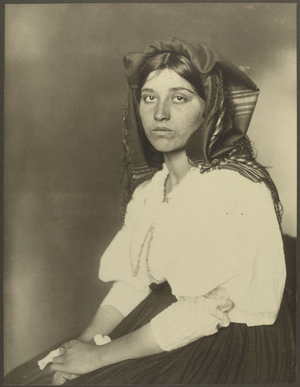 Digital ID: 418055. Sherman, Augustus F. (Augustus Francis) -- Photographer. [ca. 1906] Source: William Williams papers / Photographs of immigrants ( Repository: The New York Public Library. Manuscripts and Archives Division. See more information about and others at Persistent URL: Rights Info: No known copyright restrictions; may be subject to third party rights (for more information